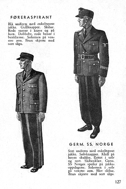 Uniforms and flags of the Nasjonal Samling (NS), Vidkun Qusiling's fascist party in Norway 1933–1945. Cropped images from a low-resolution PDF of NS årbok 1944 ( NS Yearbook 1944 ‘') published by "propaganda leadership" and printed in Gjøvik, Norway 1943: (NS was closed down in May 1945. No illustrator credited. In 2015 it’s 70 years after the release and the content of the book is believed to fall into the open by Norwegian copyright laws.)